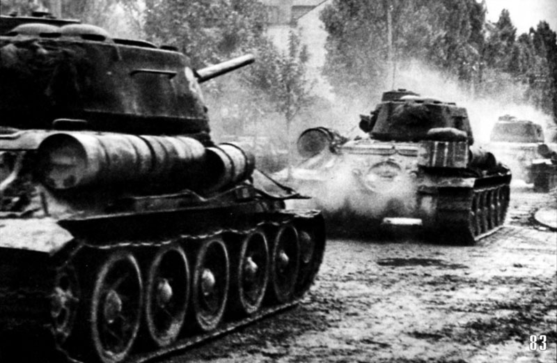 Soviet tanks of the 4th Guards mechanized corps in Belgrade offensive